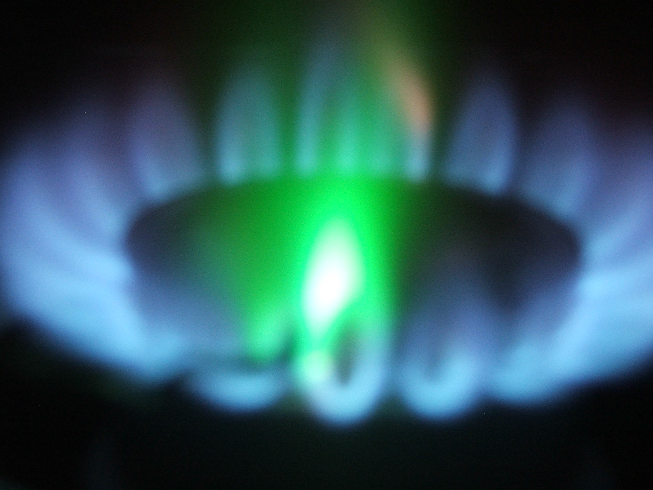 Zinc flame test